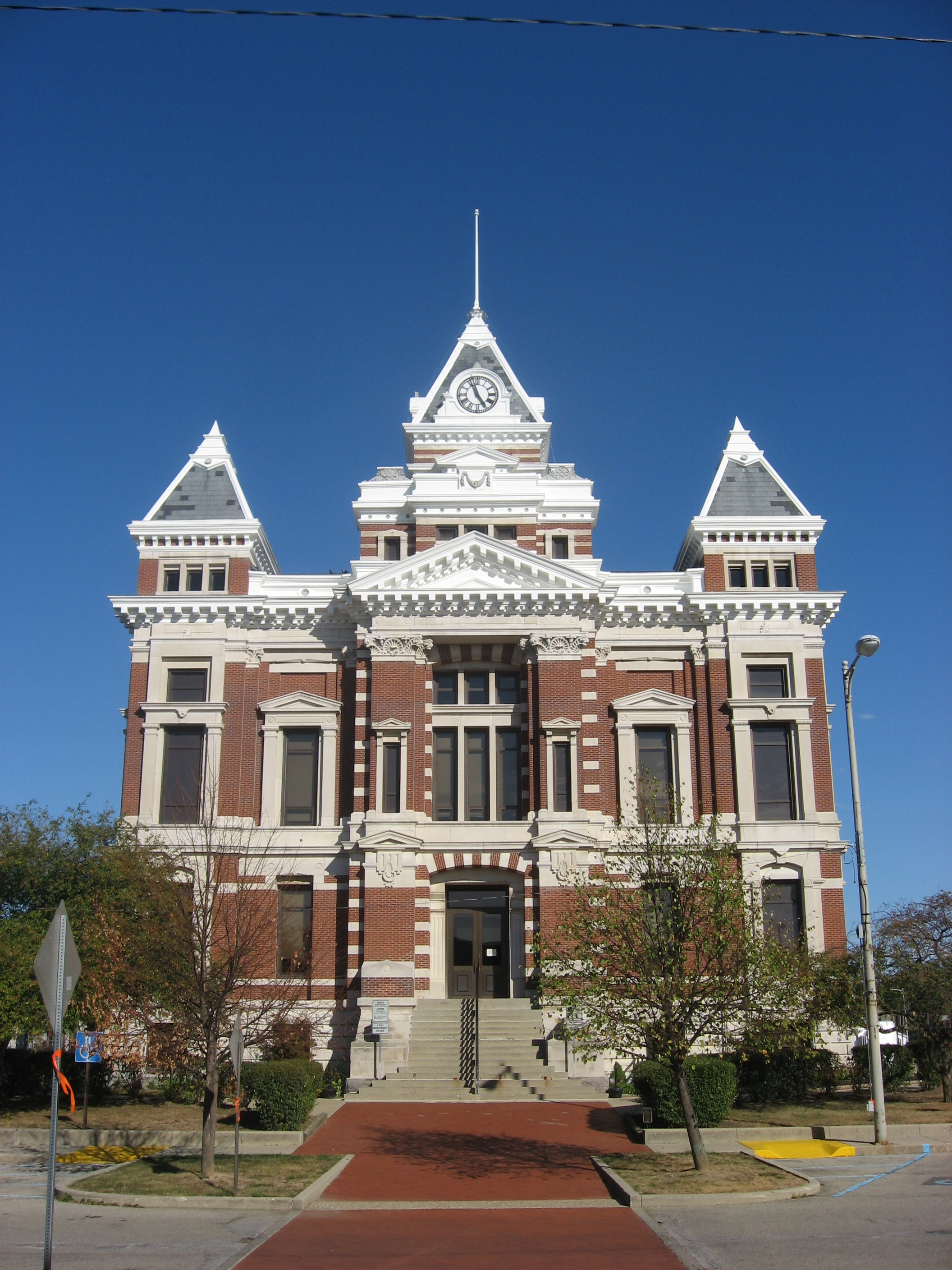 Western front of the Johnson County Courthouse, located on Courthouse Square in downtown Franklin, Indiana, United States. Built in 1879, the courthouse is part of two historic districts that are listed on the National Register of Historic Places: the Johnson County Courthouse Square and the Franklin Commercial Historic District.